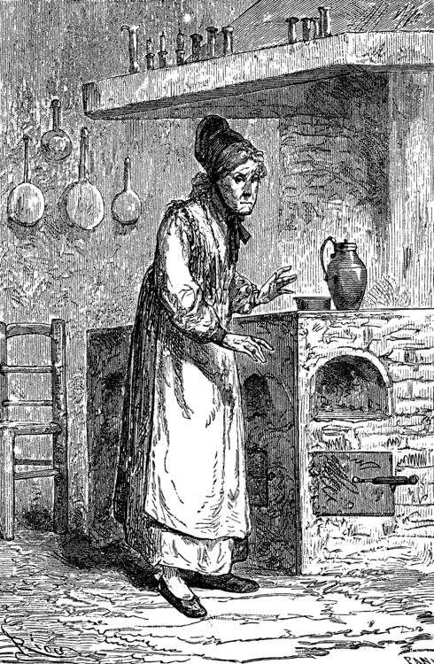 An ilustration from the novel "Journey to the Center of the Earth" by Jules Verne painted by Édouard Riou.